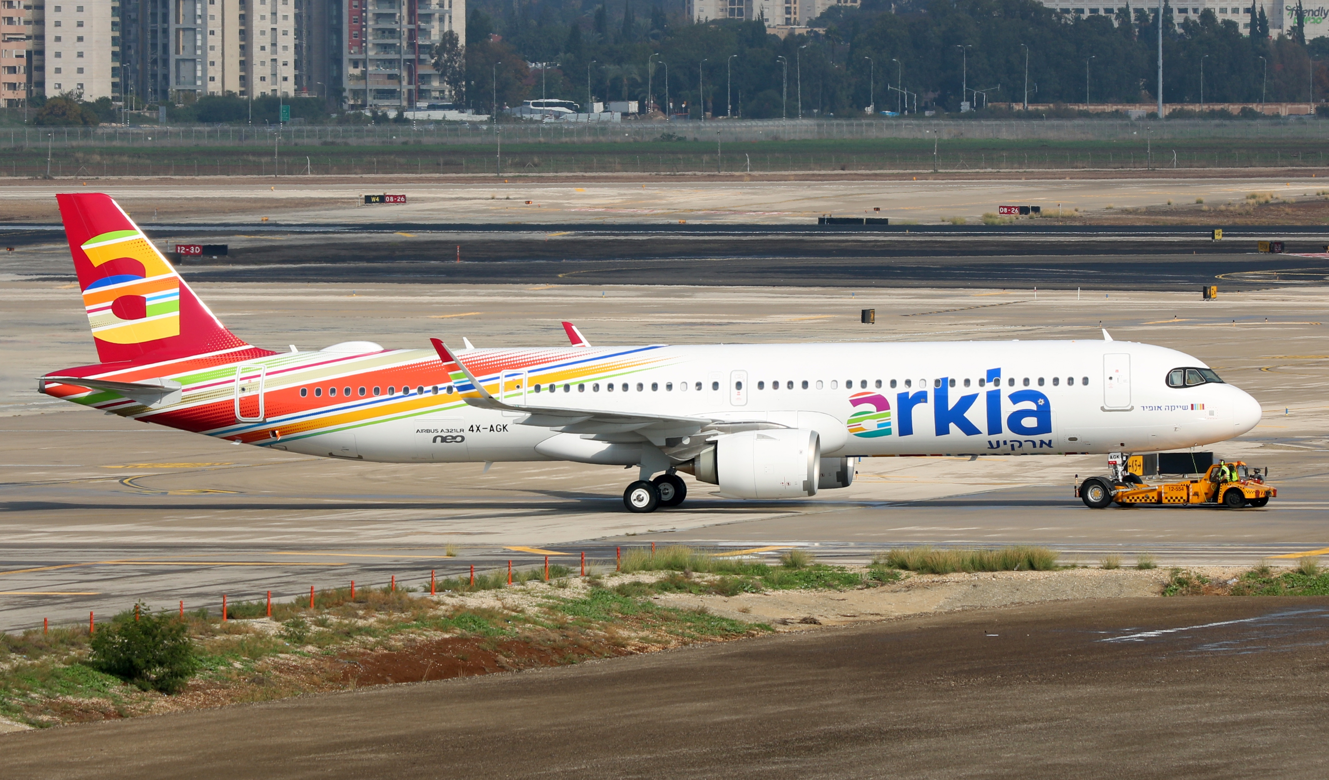 4X-AGK at Ben Gurion Airport